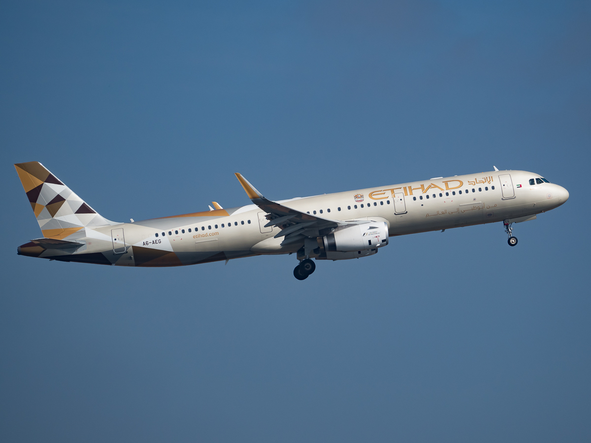 Etihad Airbus A321 registered A6-AEG taking off from Kempegowda Intl Airport Bangalore